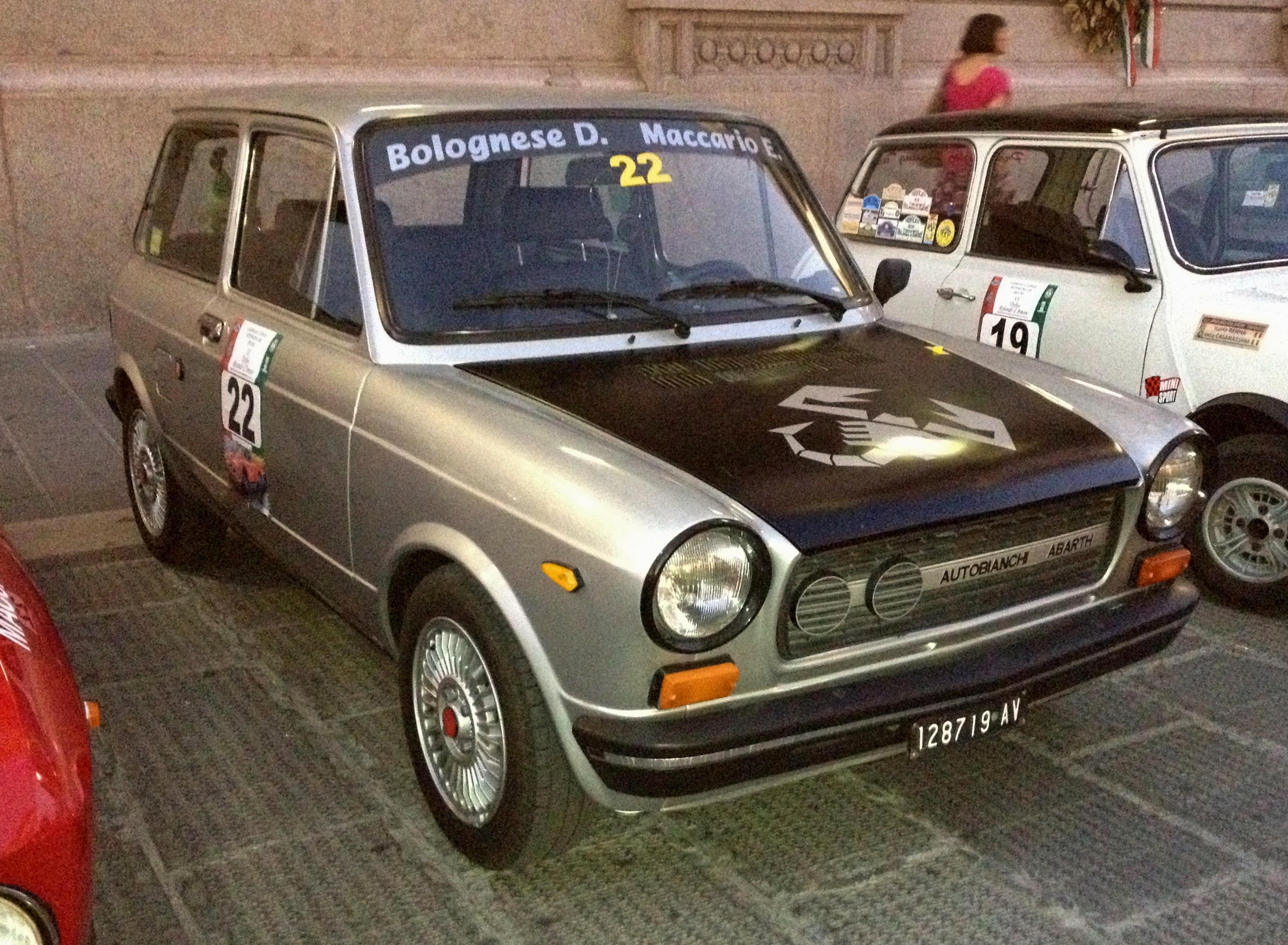 Autobianchi A112 Abarth black and grey